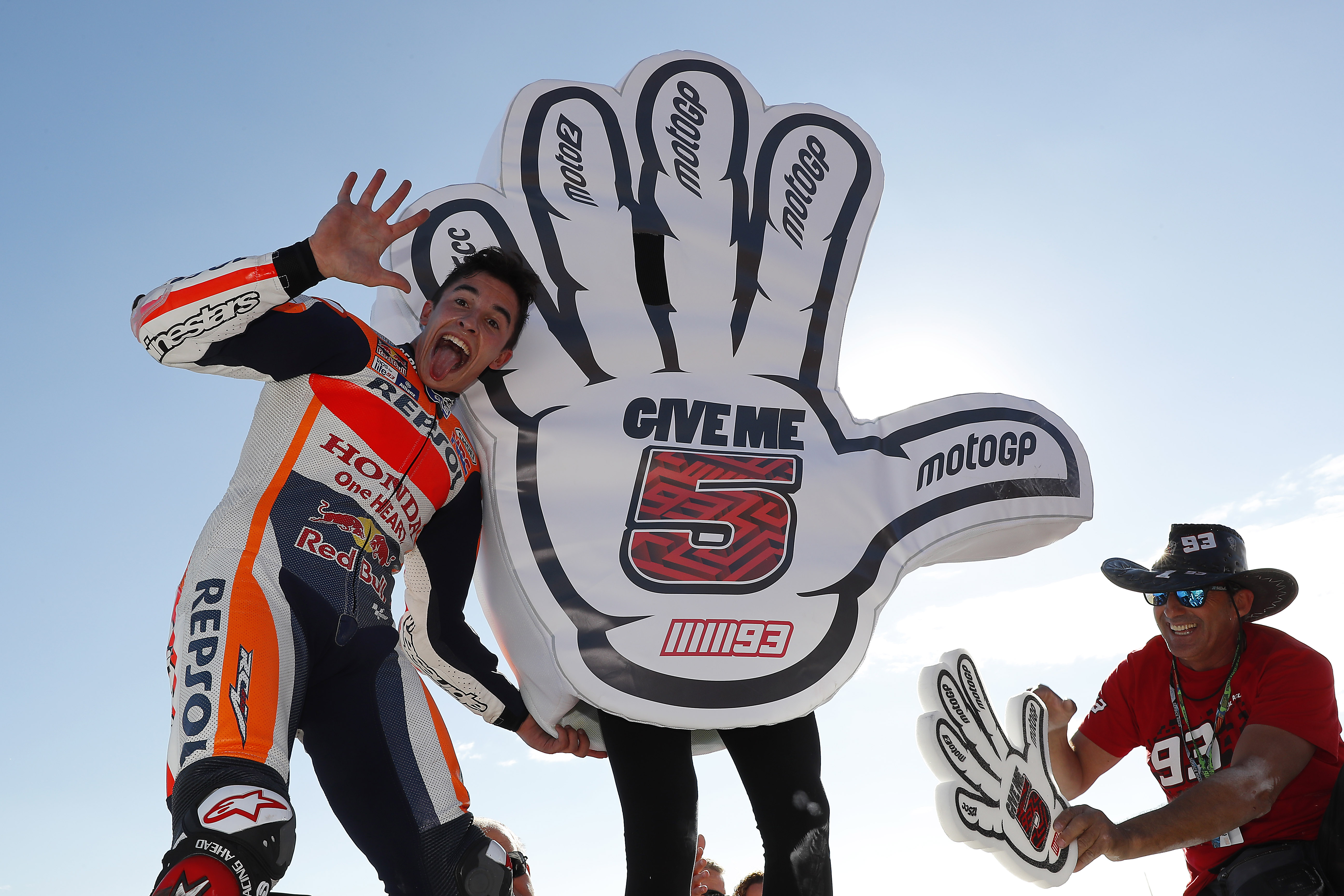 Marc Márquez, celebrating third MotoGP world championship title with a fan after finishing in second place at the 2016 Valencian Community Grand Prix.